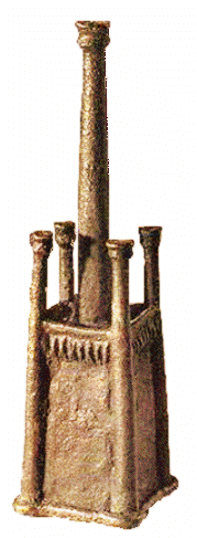 Bronze model of nuraghe found at Ittireddu (Sassari) 7th - 6th Century BC, Modello bronzeo di nuraghe polilobato